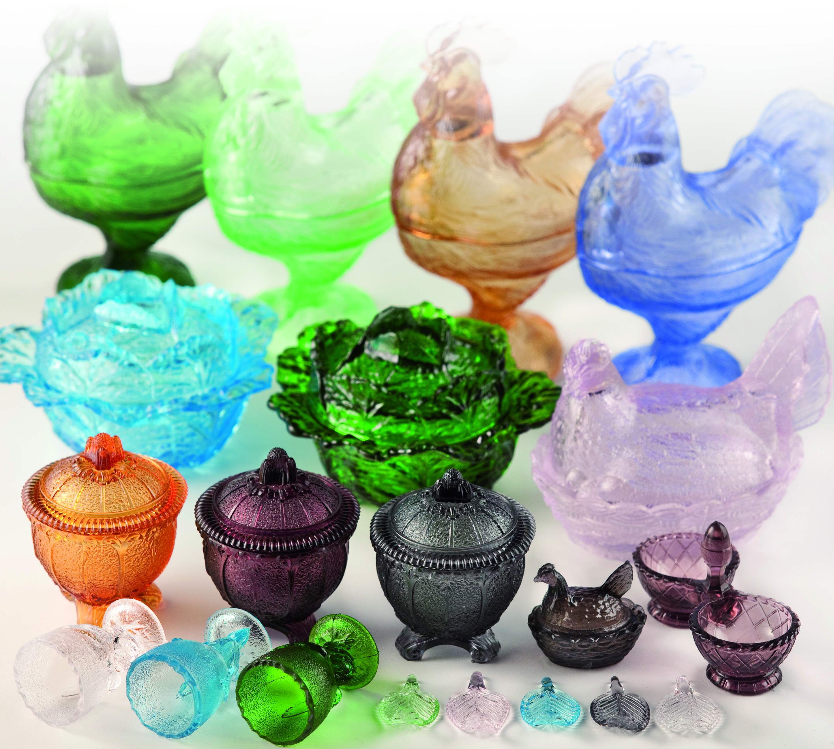 Pressed Crystal from Portieux. End of XIXth century